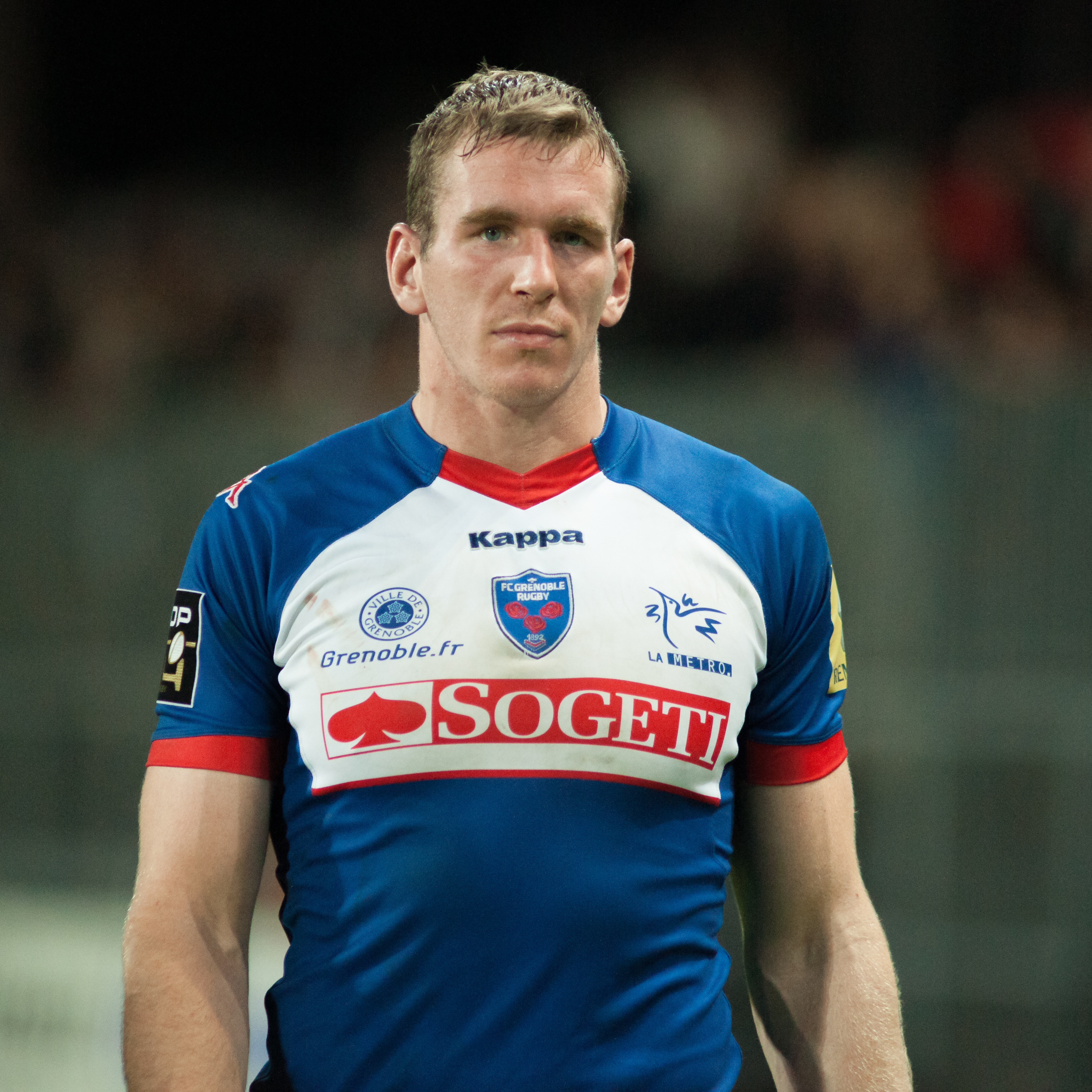 The making of this document was supported by Wikimedia CH. (Submit your project!) For all the files concerned, please see the category Supported by Wikimedia CH. Oyonnax vs. Grenoble, 19th September 2014